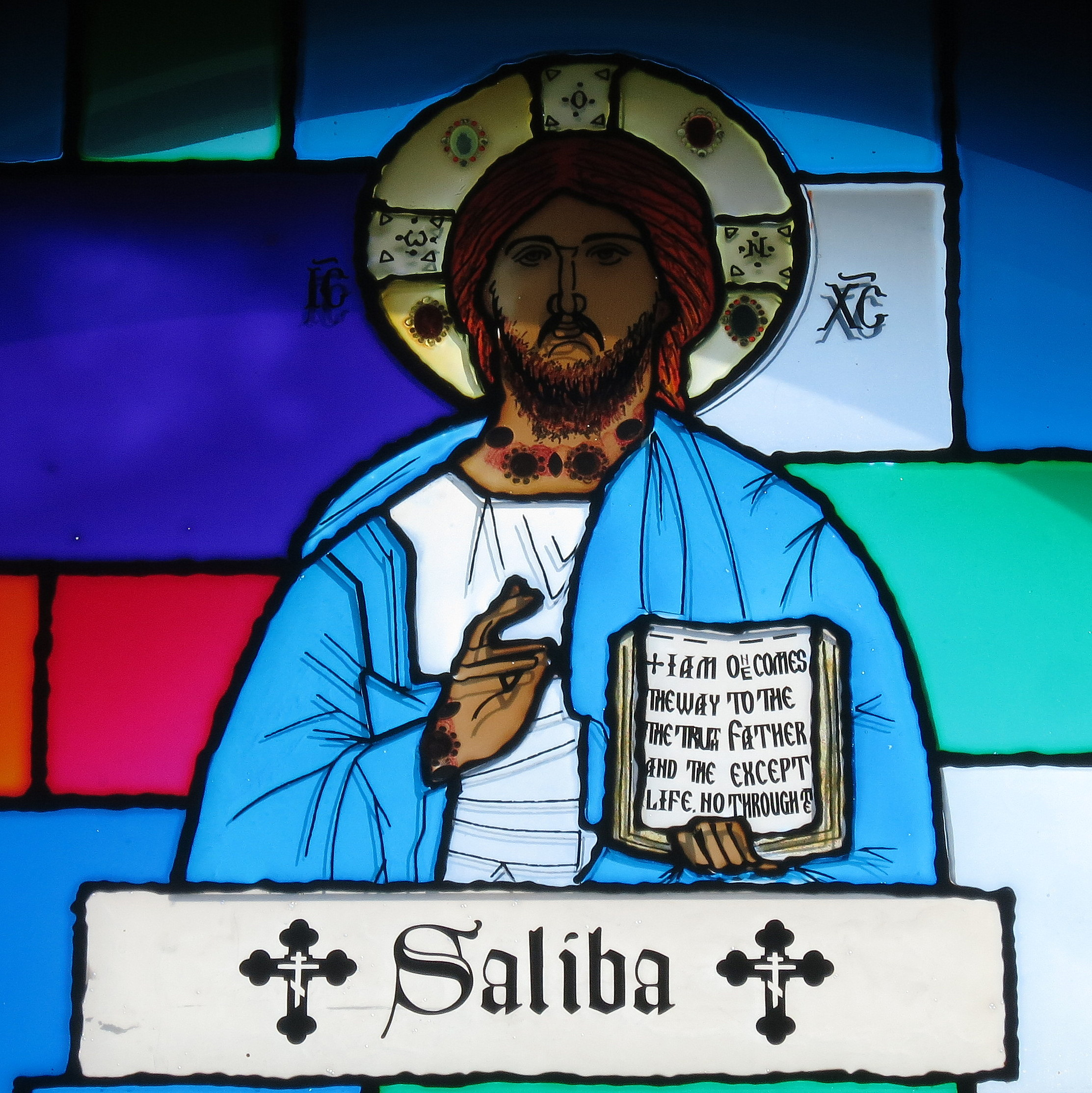 Holy Resurrection Melkite Catholic Church (Columbus, Ohio) - stained glass, Saliba